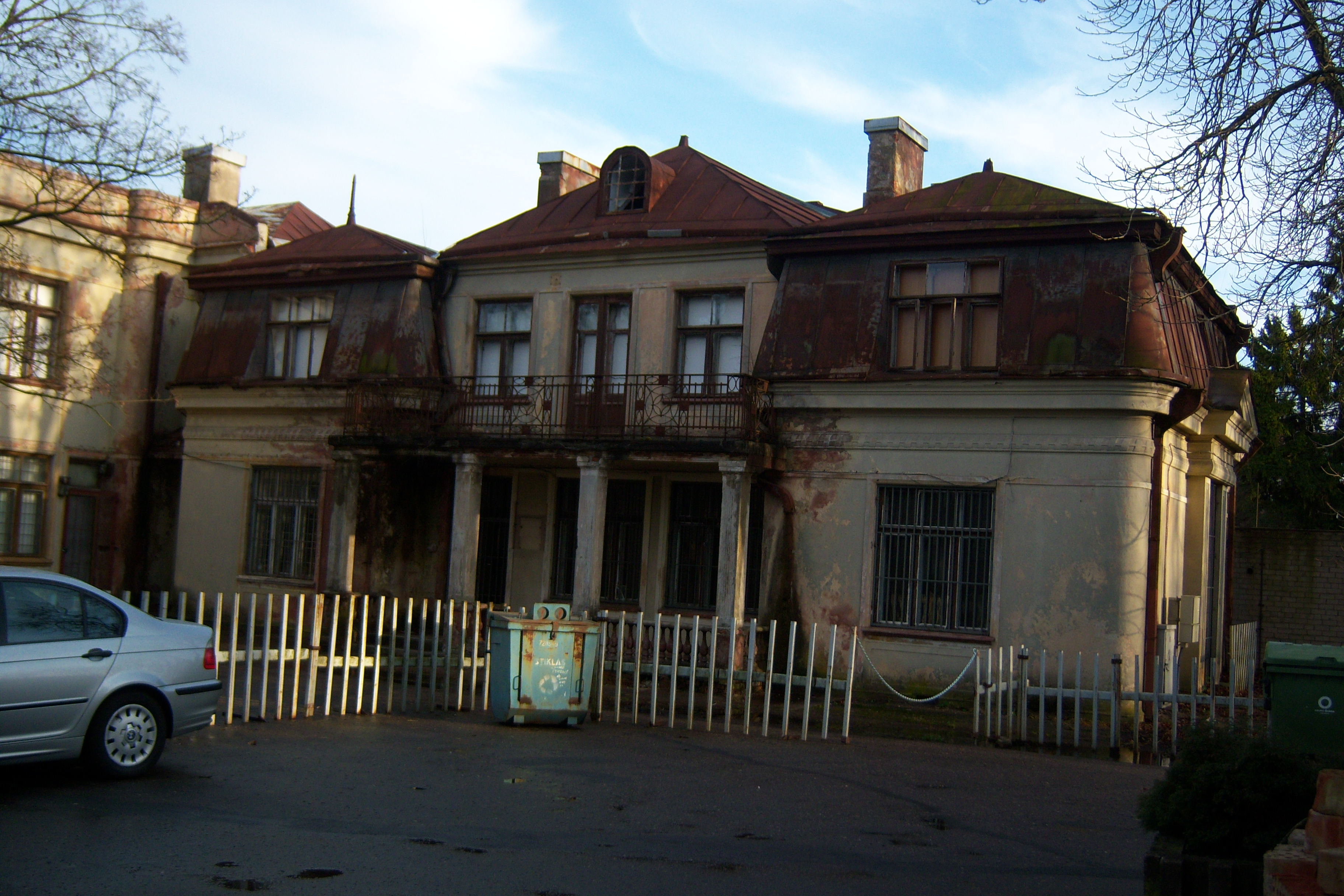 Former Italian embassy, Vydūno al. 13, Kaunas, Lithuania